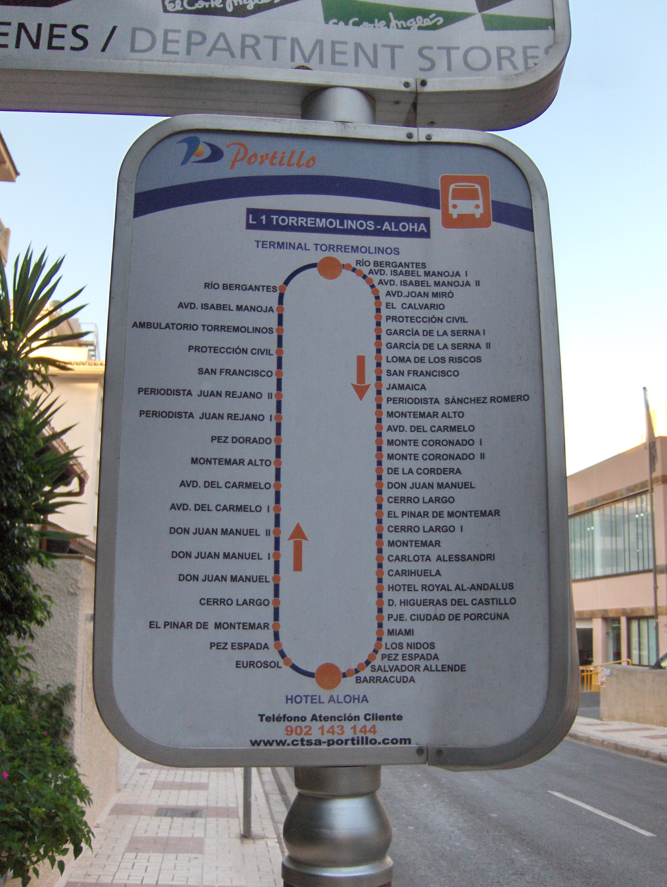 Information post of bus company "Urbanos de Torremolinos", Torremolinos, Spain